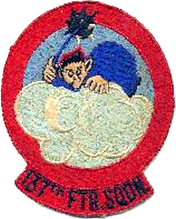 137th Fighter-Interceptor Squadron - Emblem